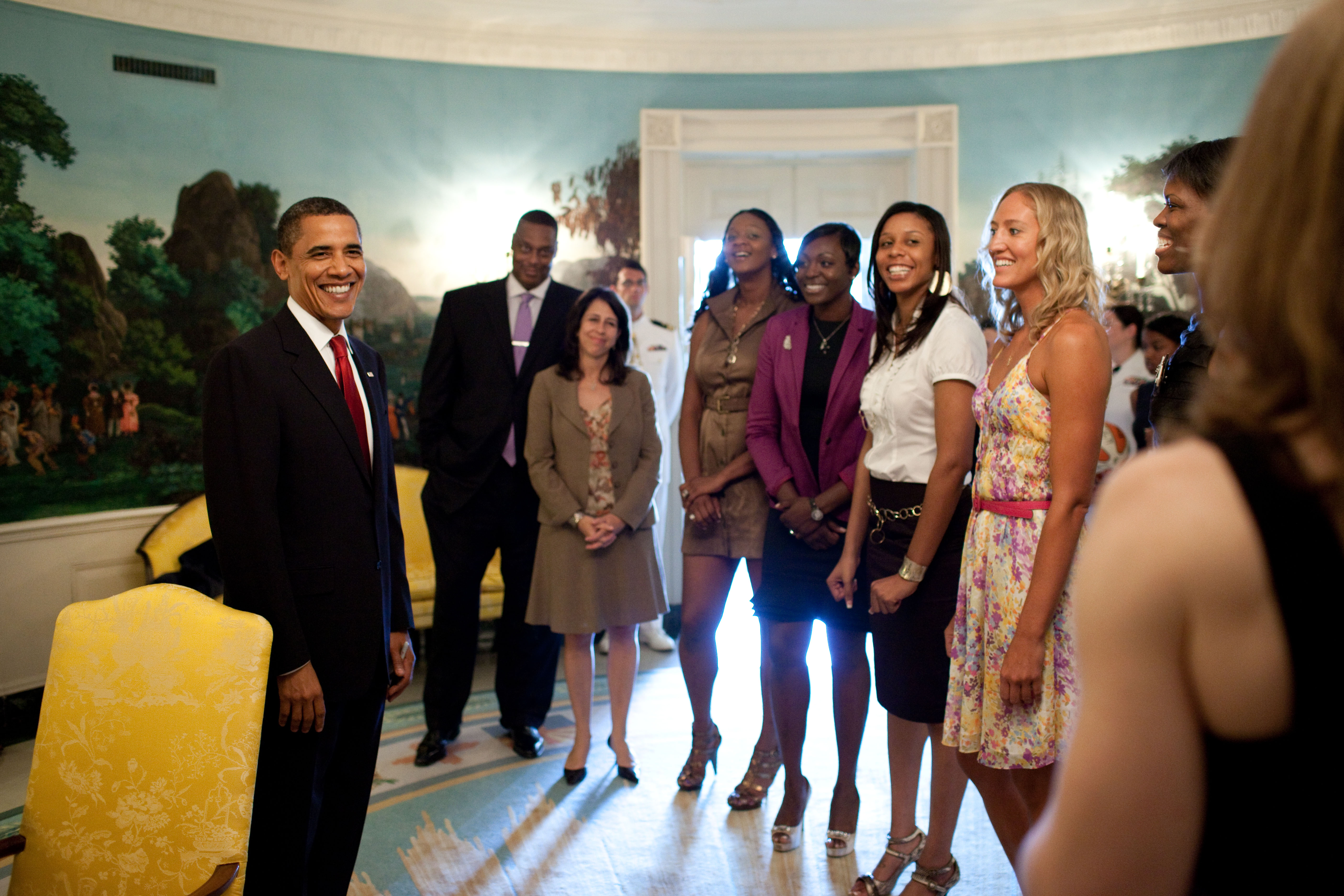 President Barack Obama meets with the Women's National Basketball Association champions, the Detroit Shock, in the Diplomatic Reception Room of the White House on July 27, 2009.